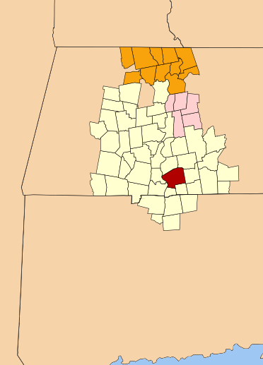 Map of the Springfield, MA (yellow), Amherst Center (pink), and Greenfield (orange) Metropolitan Areas. The City of Springfield is highlighted (red).